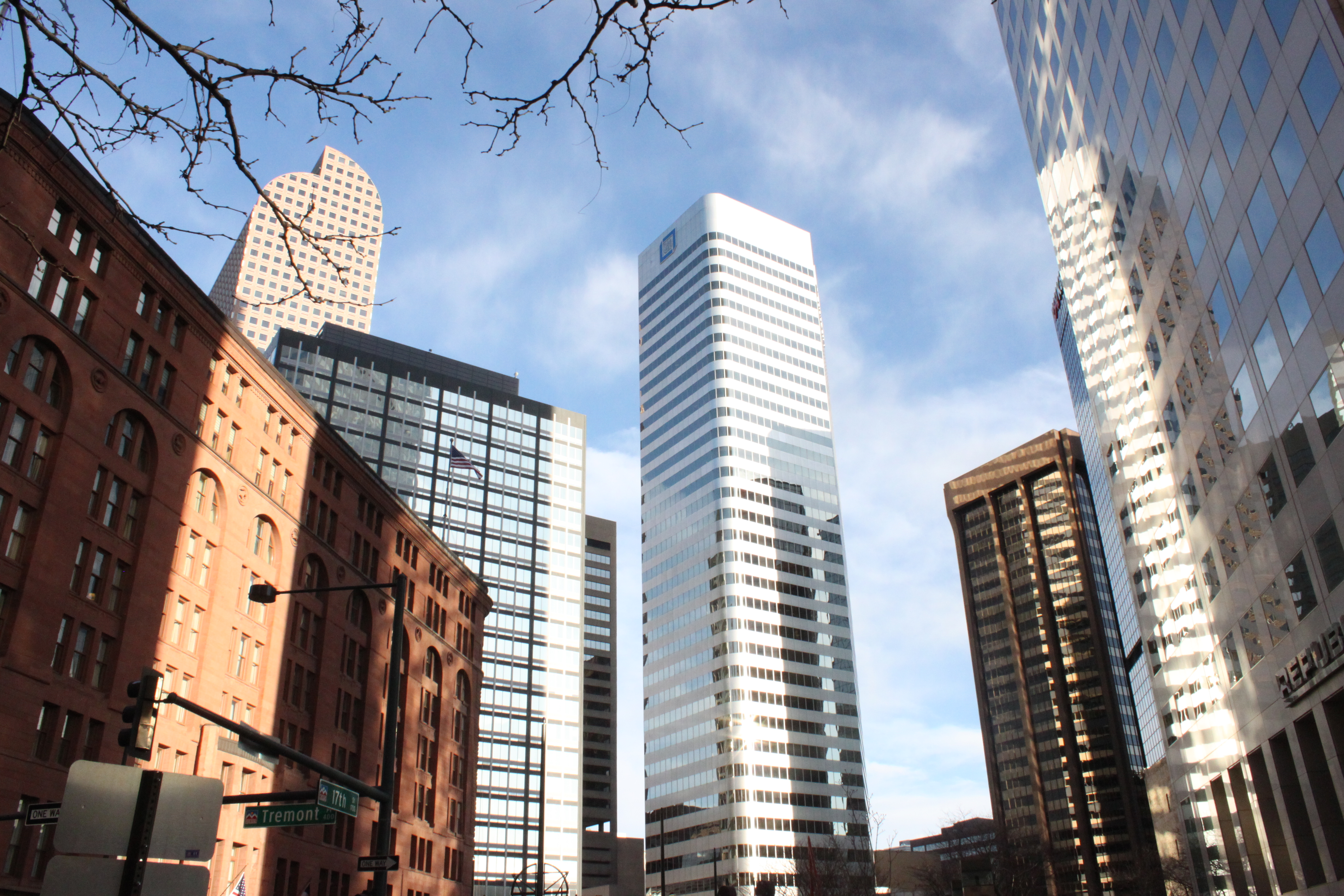 Downtown Denver Colorado 2010